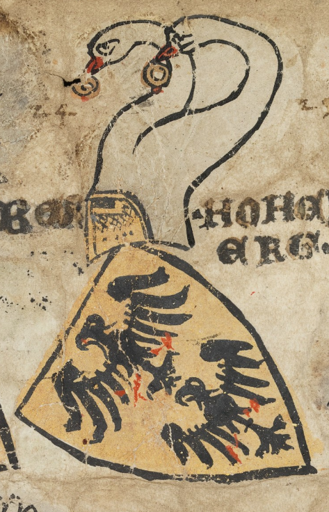 Coat of arms of the family of Neu-Homberg (or Frohburg-Homberg), as used by Wernher III von Homberg